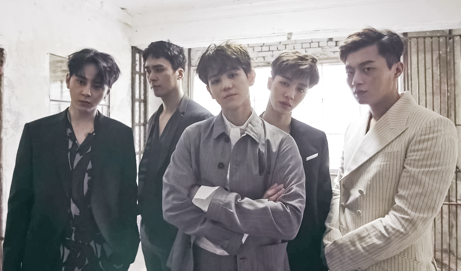 (Marie Claire Korea) BEAST is BACK!